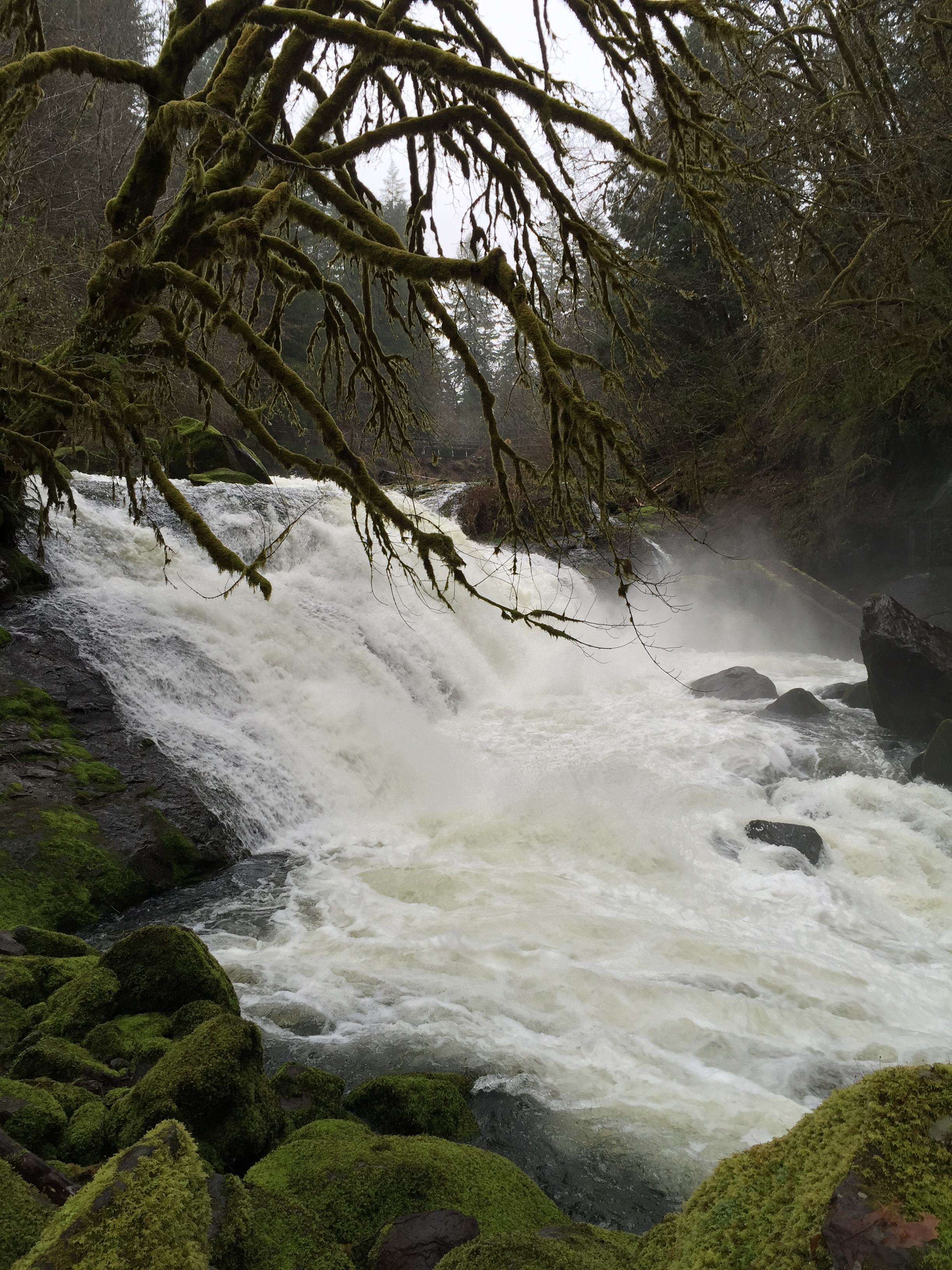 Lake Creek Falls, near Triangle Lake, Oregon, has been a popular swimming and picnicking spot since the early 1900's. However, swimming in the swift, shallow water near the falls can be extremely risky. Visitors are encouraged to use extreme caution at all times. In the fall and winter, this site is a great spot to catch the amazing show put on by Coho and Chinook salmon and steelhead as they migrate upstream to spawn. In 1989, the Bureau of Land Management built a concrete fish ladder at this site, opening up more than 110 miles of stream habitat to fish. For more information, Photos and videos by Greg Shine, BLM Oregon 3/8/16